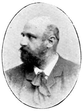 Image scanned from the book "Svenskt Porträttgalleri XX - Arkitekter, Bildhuggare, Målare m.fl. " ("Swedish Portrait Gallery XX - Architects, Sculptors, Painters, ") published 1901